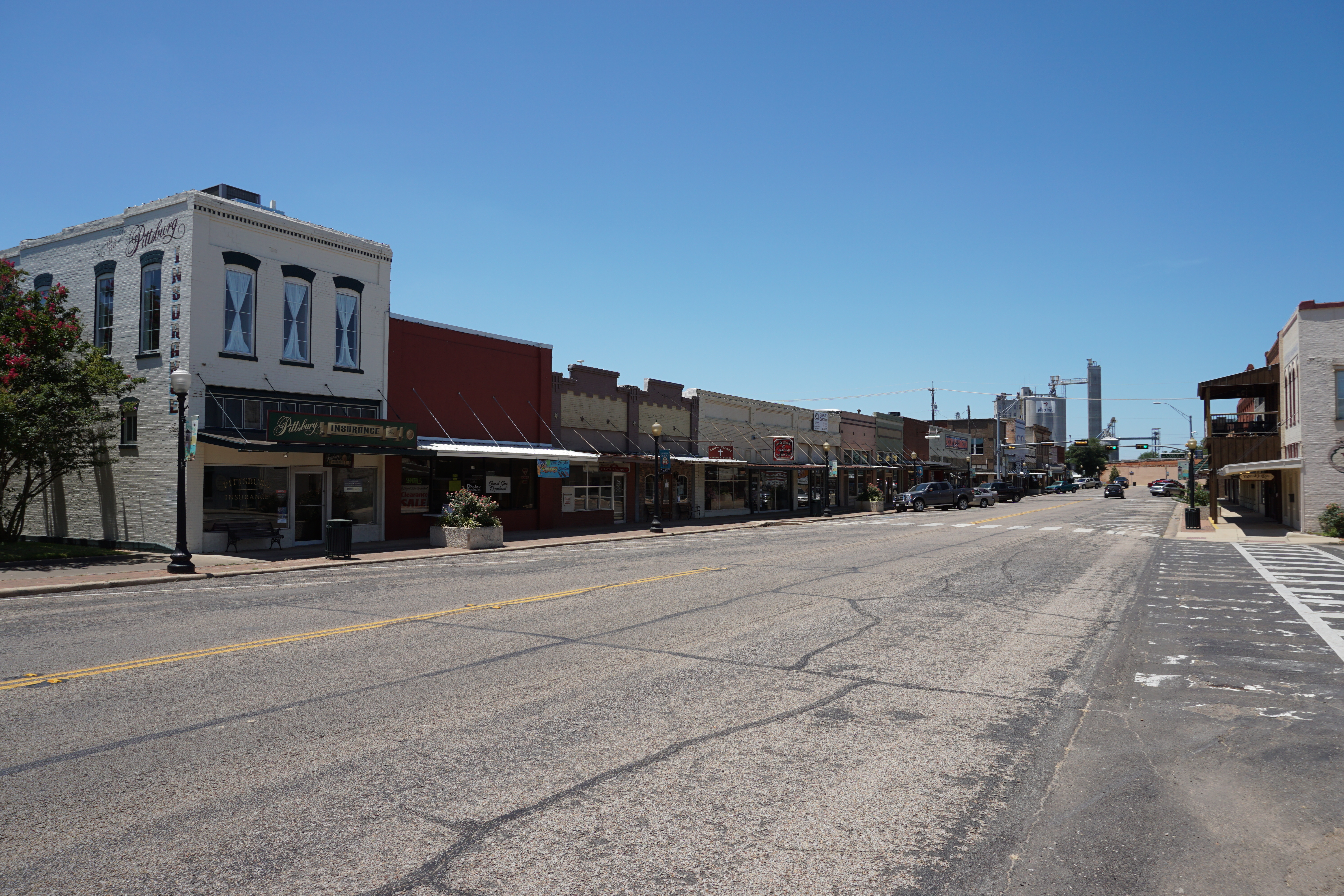 Jefferson Street in Pittsburg, Texas (United States).